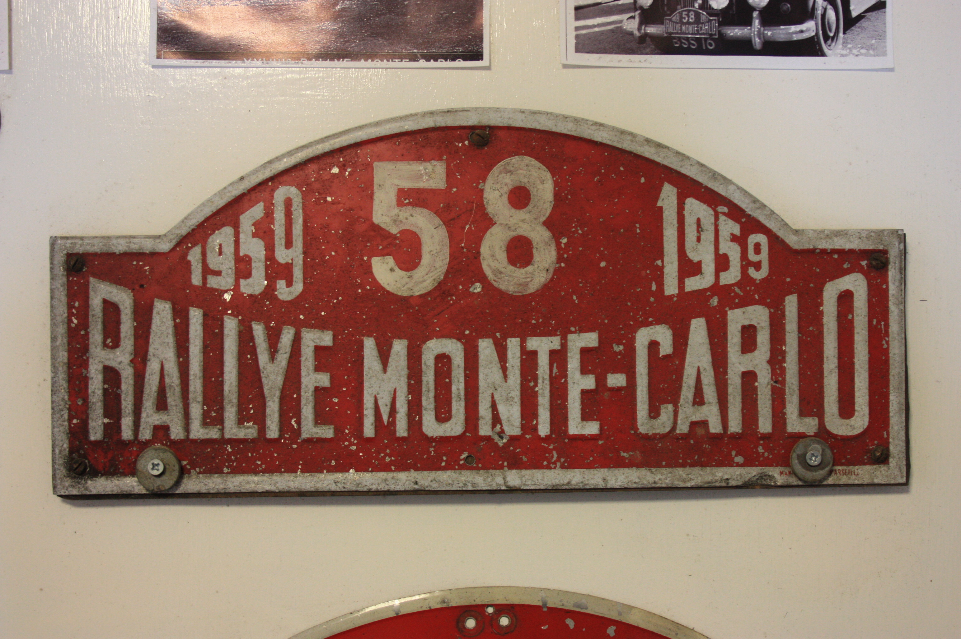 A staging post from the 1959 Monte Carlo Rally